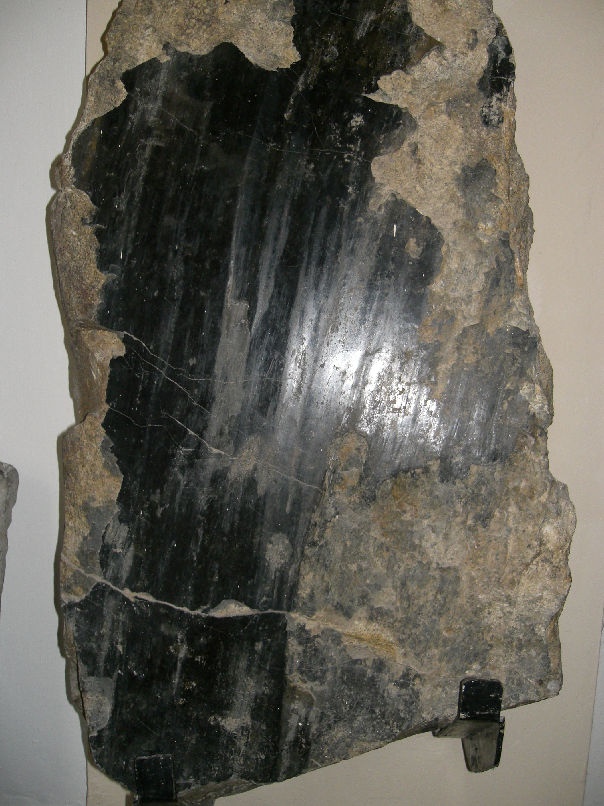 Slickenside - Faulting polish